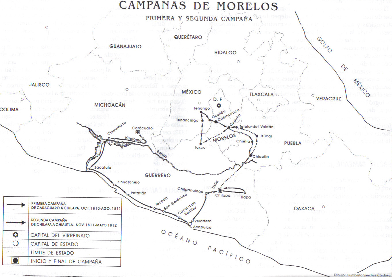 Map of first and second campaings of José María Morelos